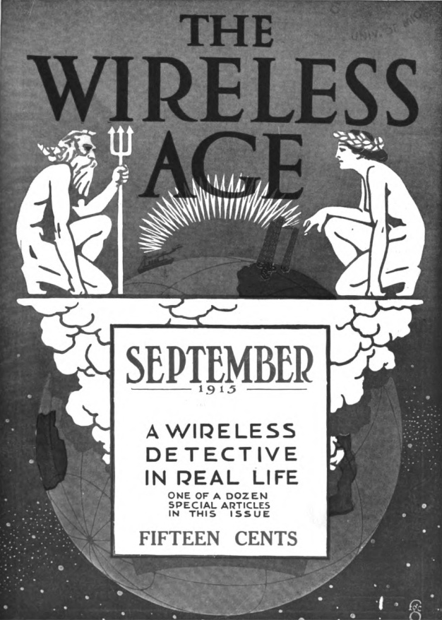 The Wireless Age, Sept. 1915, featuring a story about Charles E. Apgar "A Wireless Detective in Real Life."